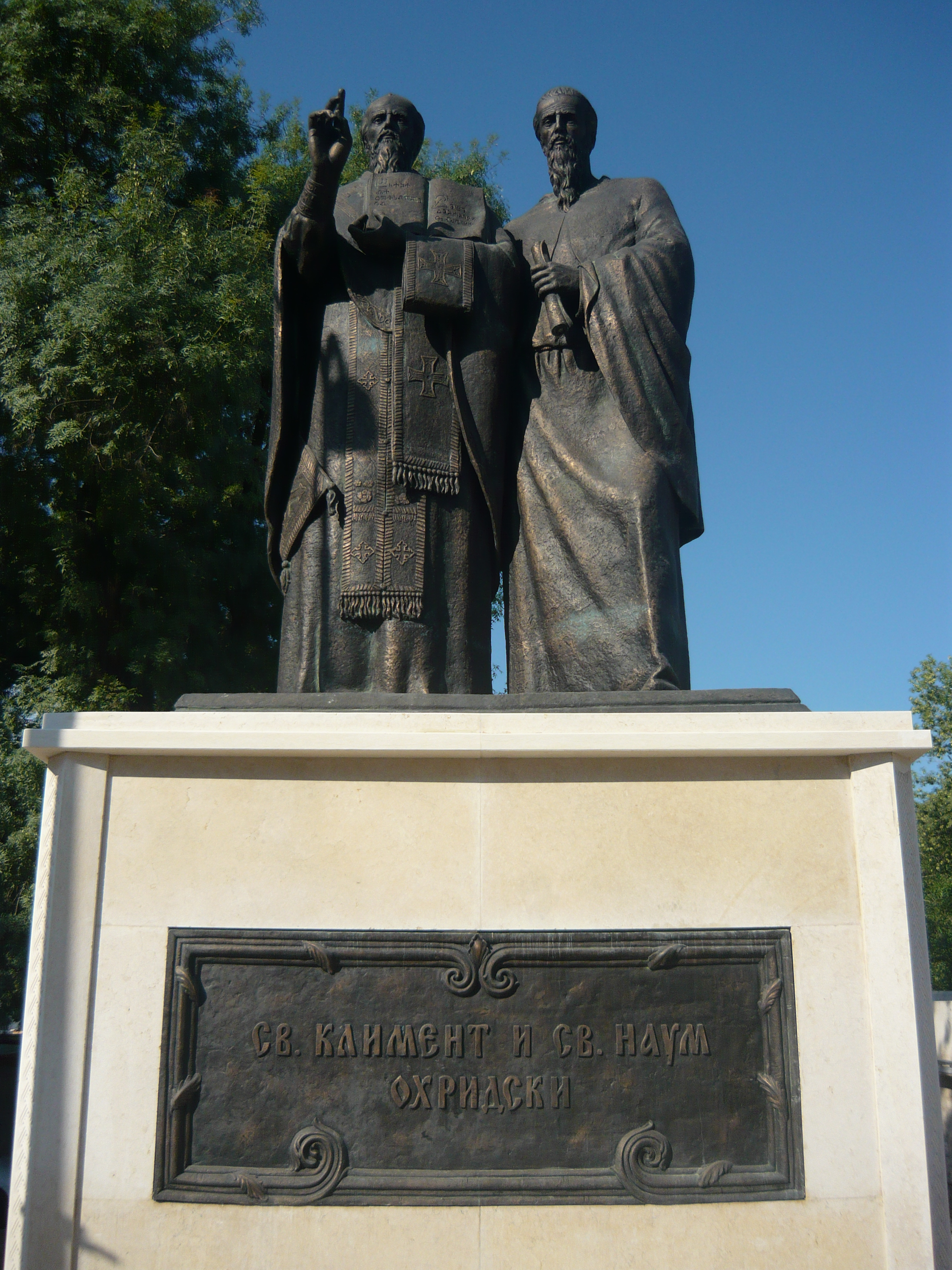 Monument of Kliment and Naum Ohridski in Macedonia, Skopje